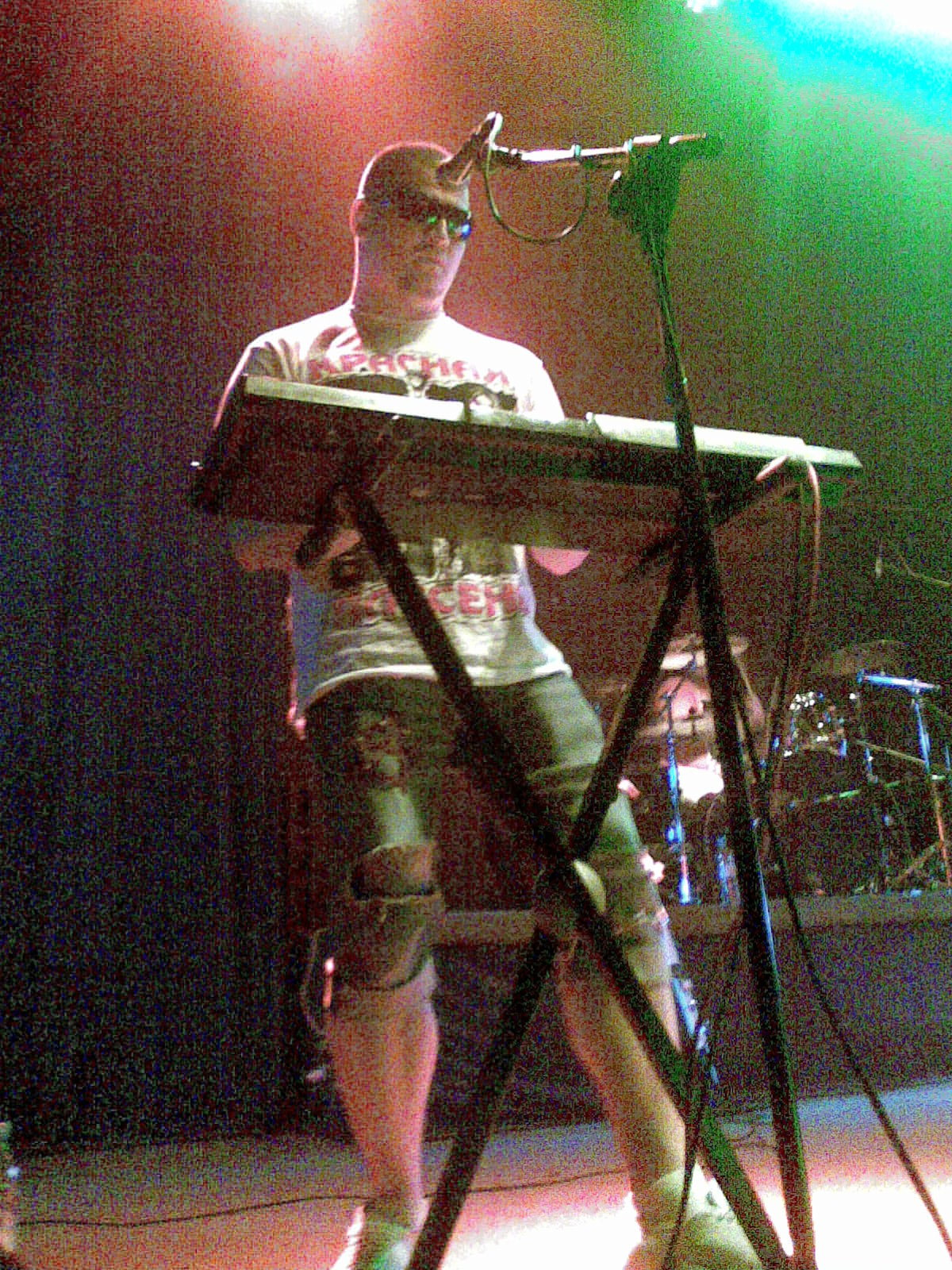 Sergey "Sid" Mikhaylov, member of Krasnaya Plesen.